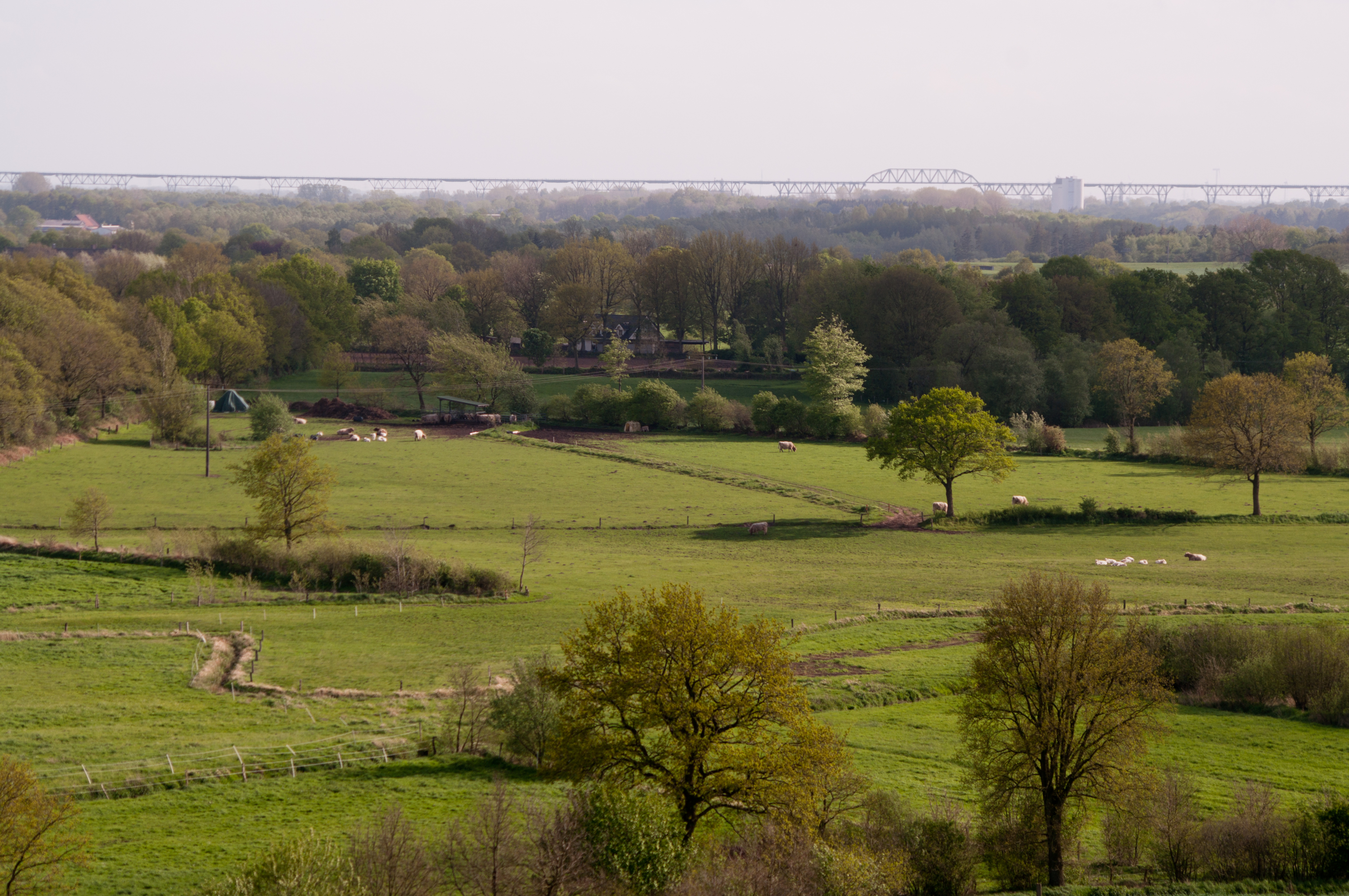 View from the parking place Hohenhörn at the Autobahn 23. Across fields in the Geest landscape of Bornholt. In the background railway bridge Hochdonn across the Kiel Canal.